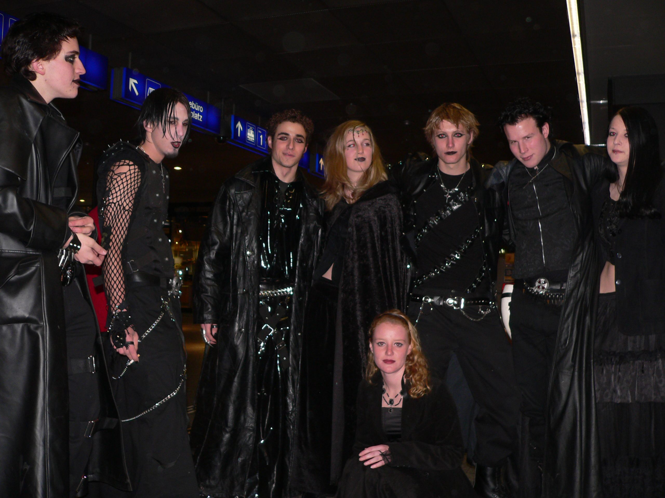 Quite nice Goth people met in Basel train station